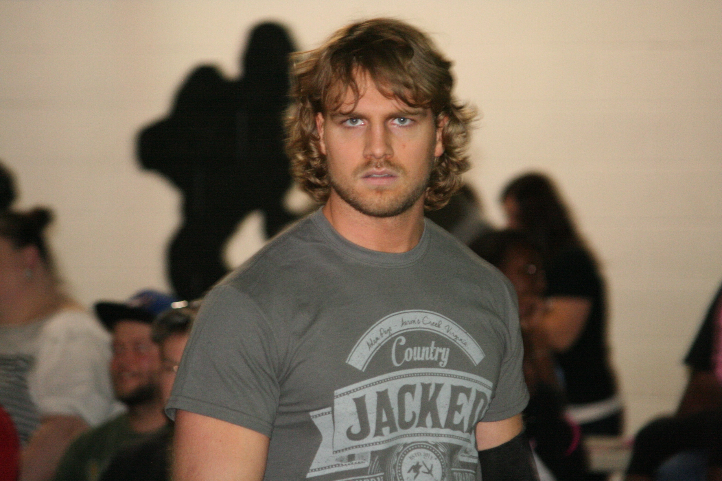 Adam Page in October 2014 at a PWX show in North Carolina.